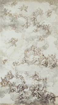 Bartolomeo Tarsia. The Triumph of Wisdom